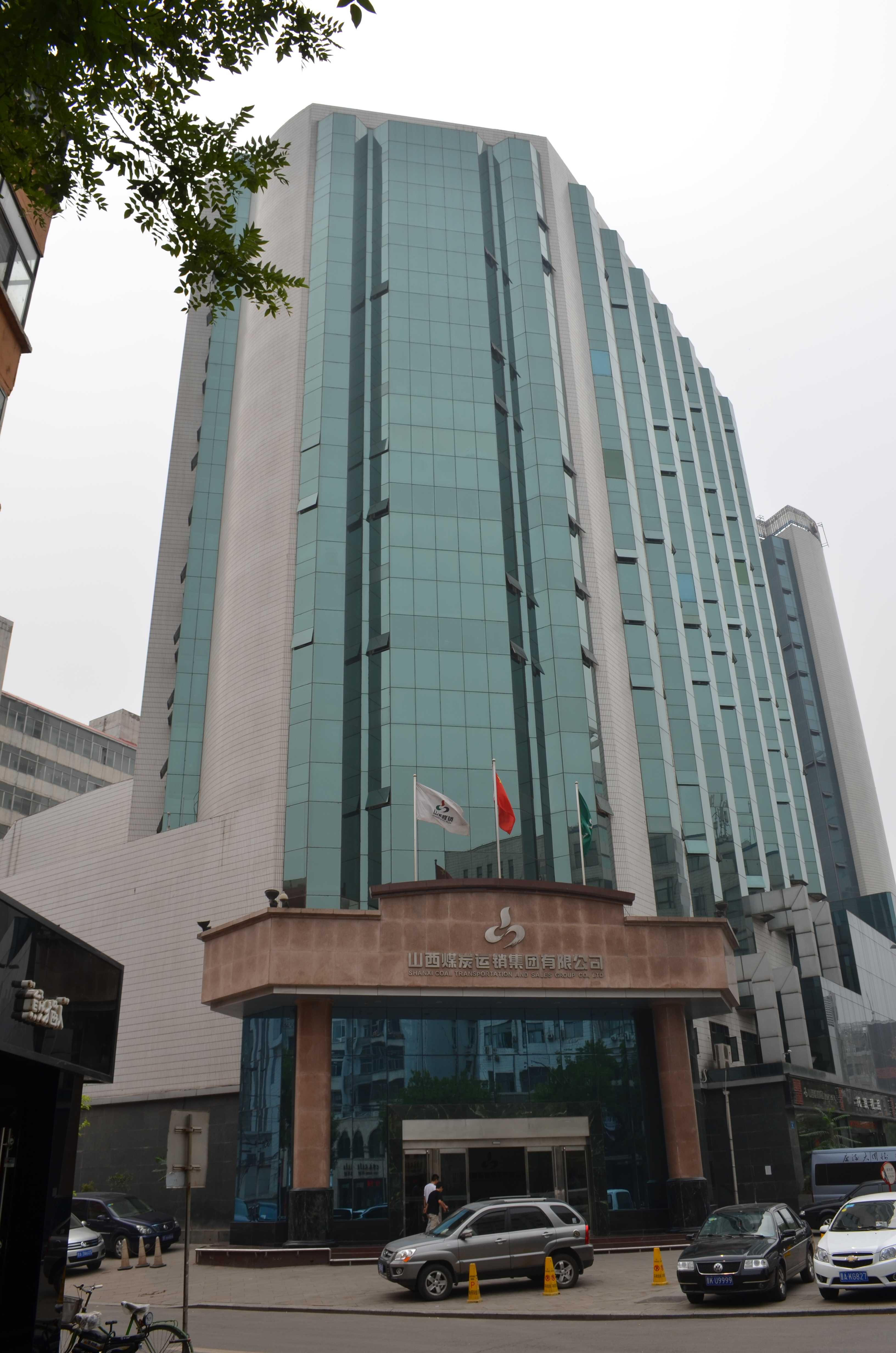 Shanxi Coal Transportation And Sales Group Co. LTD